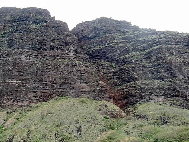 cliff above Polihale, Kauai, Hawaii